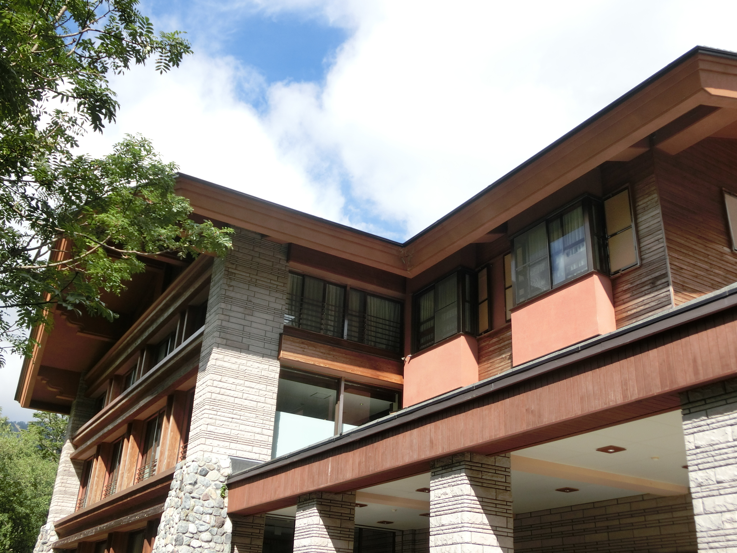 Kamikochi Alpine Hotel